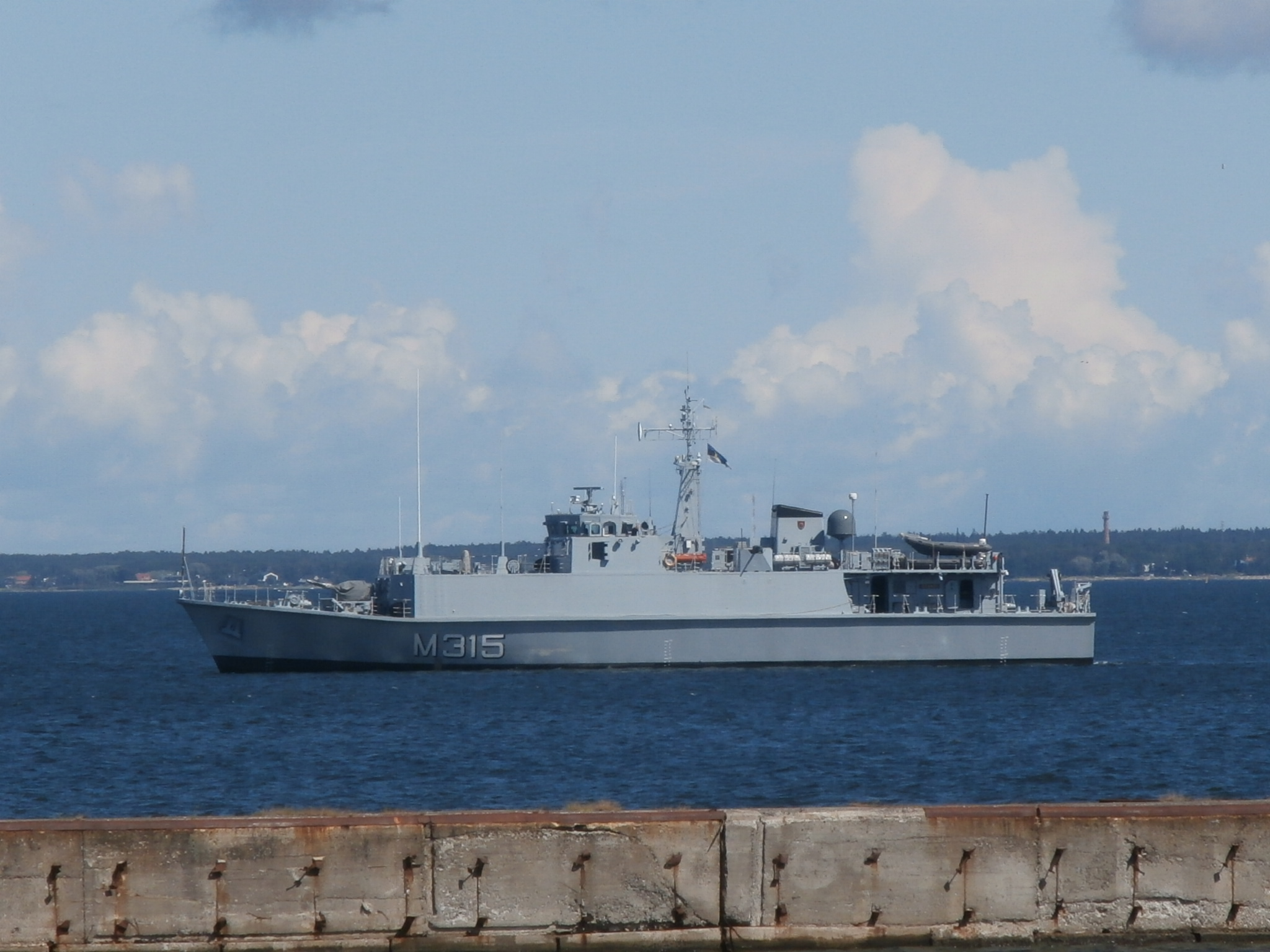 M315 Ugandi behind the quay D in Tallinn Bay, Lennusadam, Tallinn 18 July 2017